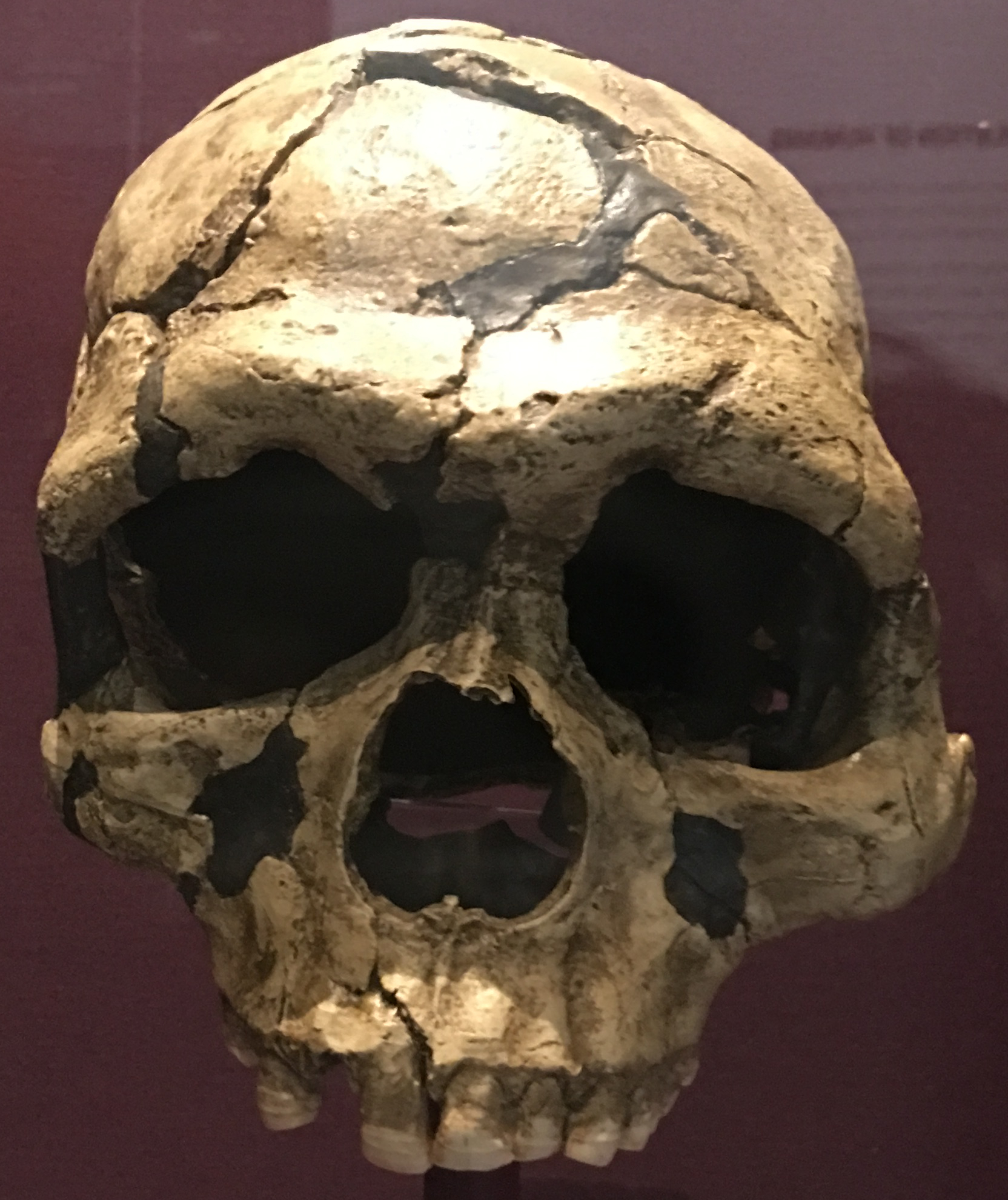 A replica of the skull of Qafzeh 6, Natural History Museum, London.